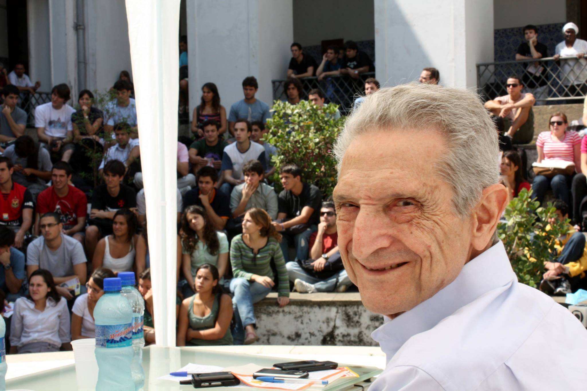 1524300_778578185515773_4329539694333721947_o